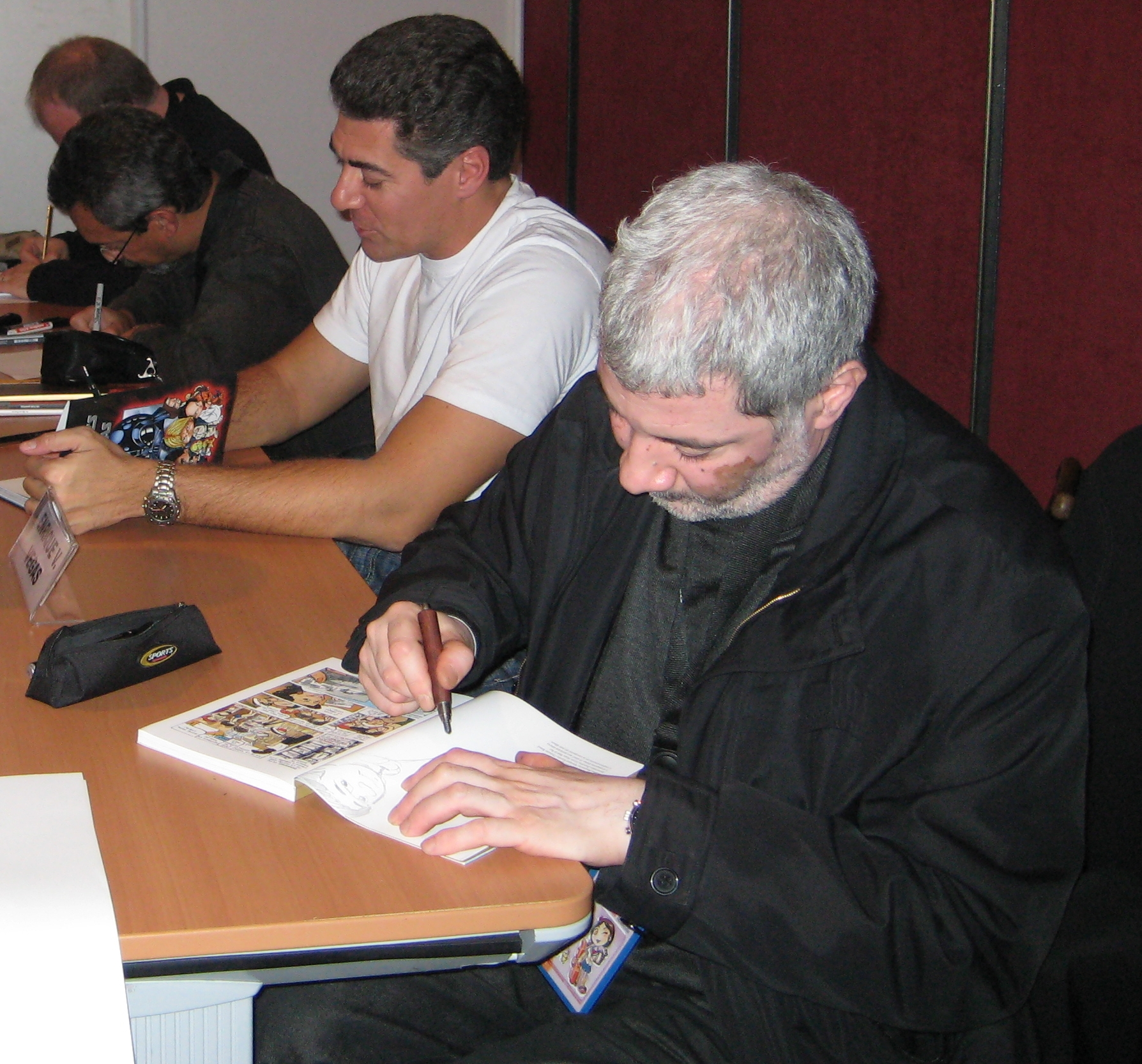 Authors signing albums at VI Getxo Comic Con: Farid Boudjellal (foreground, in black clothes), from France and Enrique V. Vegas (second, in white), from Spain